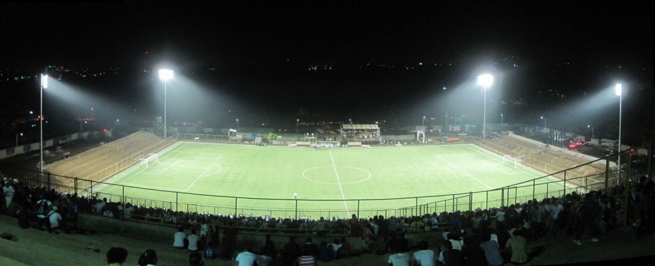 A pregame shot of Nicaragua's new National Football Stadium. From before the first official game played versus Panama.